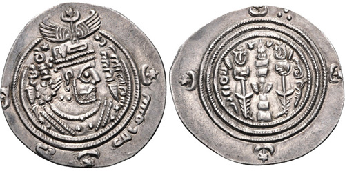 Zīyad ibn Abī Sufyān. Umayyad governor, AH 45-54 / AD 665-673. AR Drachm (29mm, 3.19 g, 3h). APRSH (Abarshahr). Dated AH 53 (AD 672/3). Crowned Sasanian-style bust right; bism allāh – rabbī in margin / Fire altar flanked by attendants; star and crescent flanking flames; .·. in margin. SICA 1, -; SCC 1750 var.; Walker 50 var.; Album 8. Near EF, toned. Unpublished in the standard references for this year.